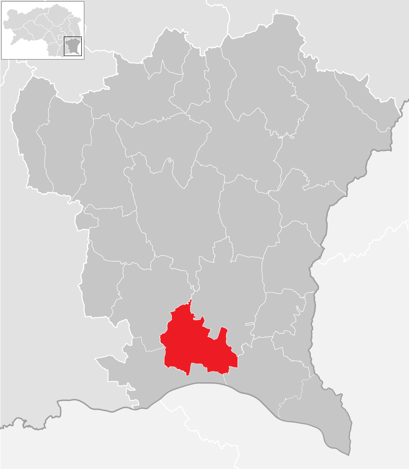 district Südoststeiermark